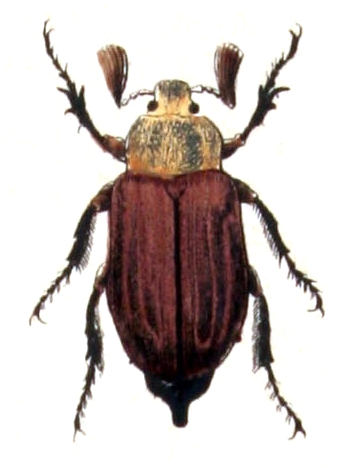 Melolontha hippocastani, from Calwer's Käferbuch, Table 19, Picture 5. Taxonomy was updated to 2008, using mostly the sites Fauna Europaea and BioLib. Please contact Sarefo if the determination is wrong!